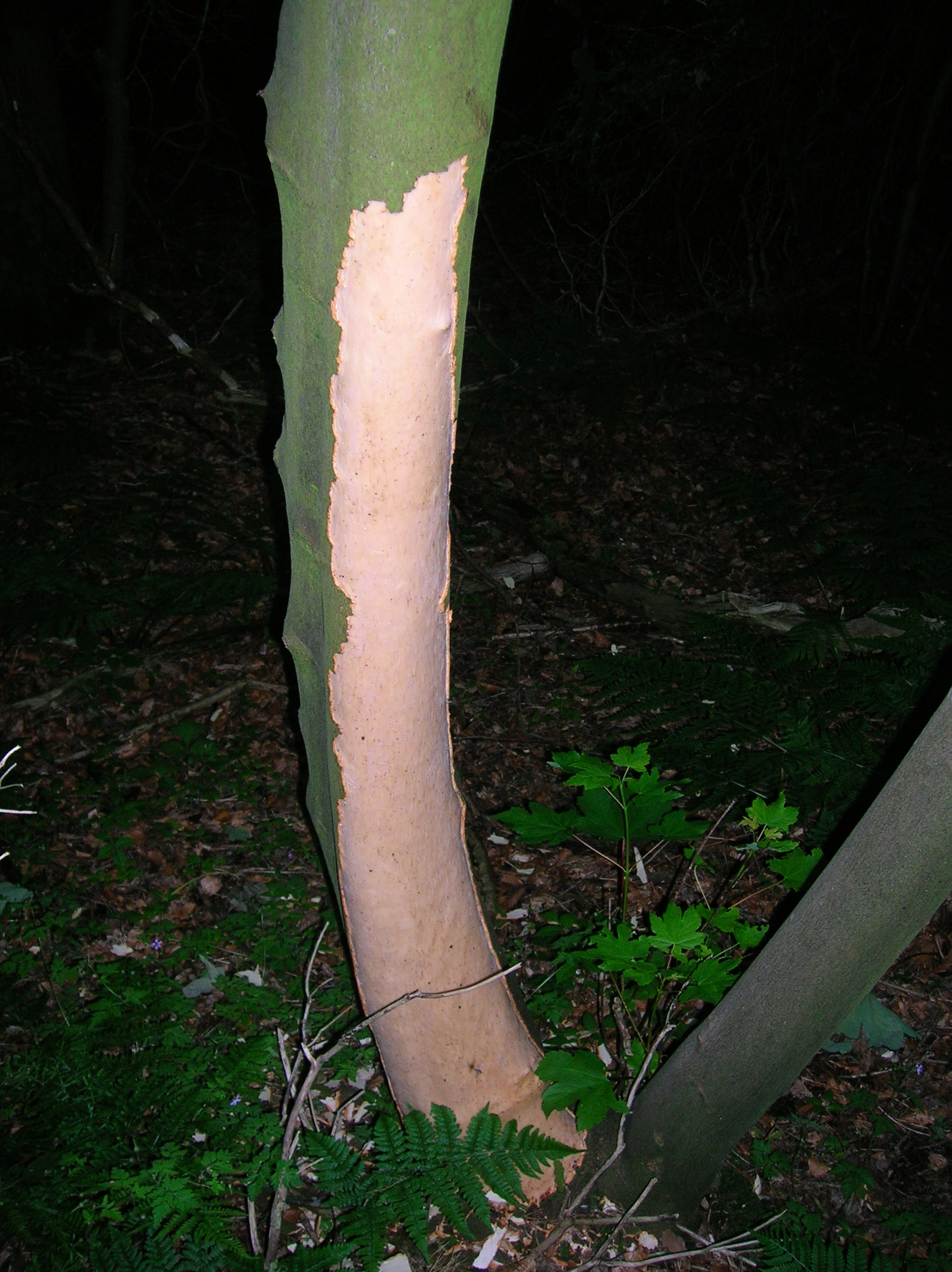 A Sycamore (Acer pseudoplatanus) trunk damaged by Grey squirrels at Spier's School.